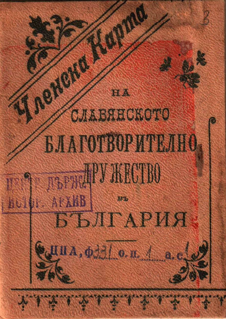 Todor Saev